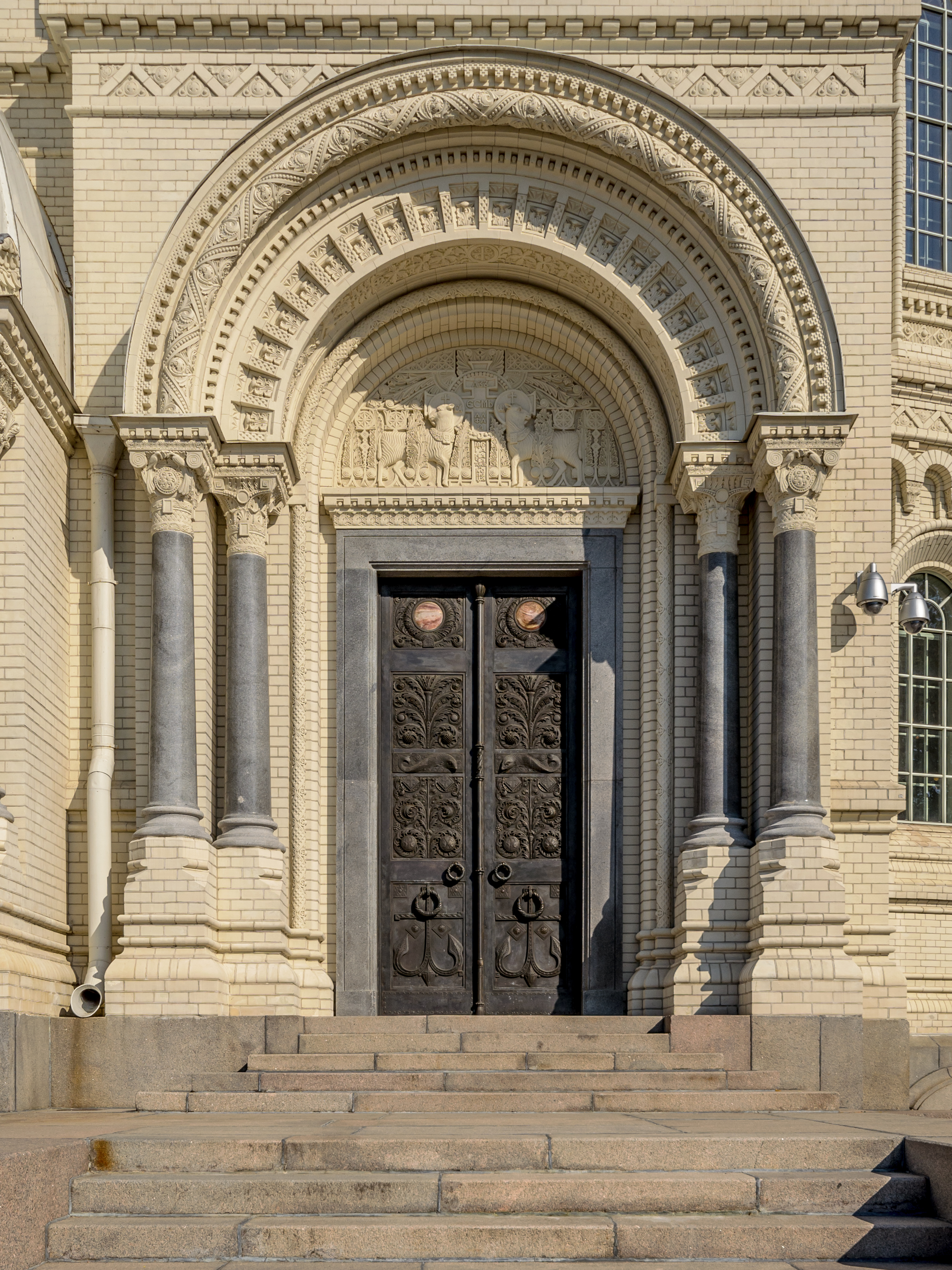 Naval Cathedral of Saint Nicholas in Kronstadt